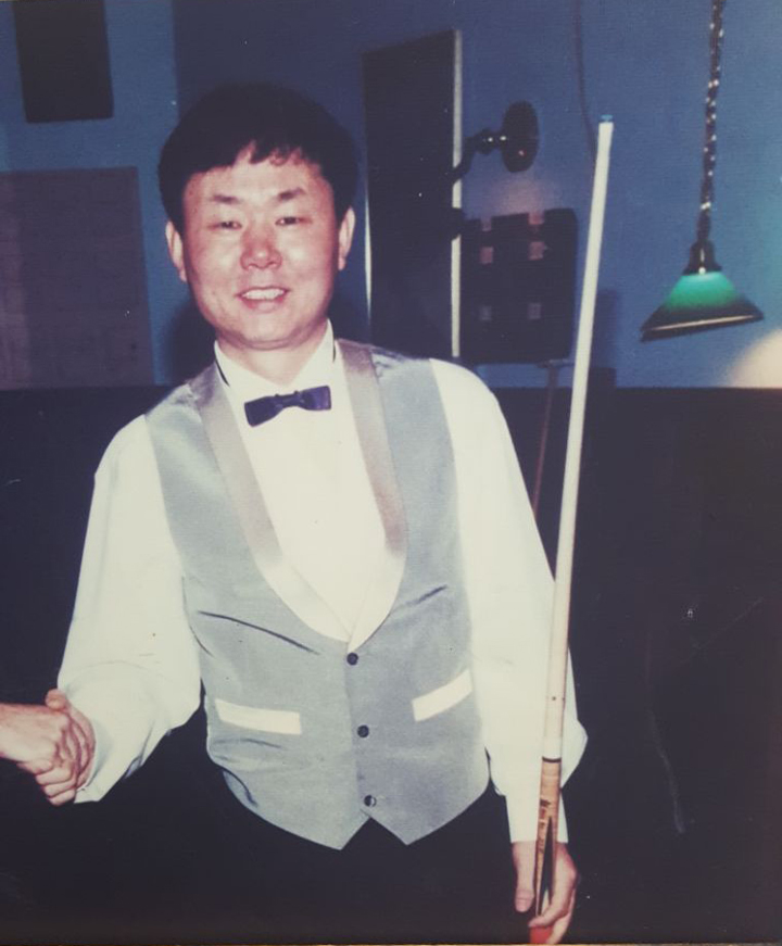 Carom billiards player Sang Chun Lee (Korean: Lee Sang-chun)